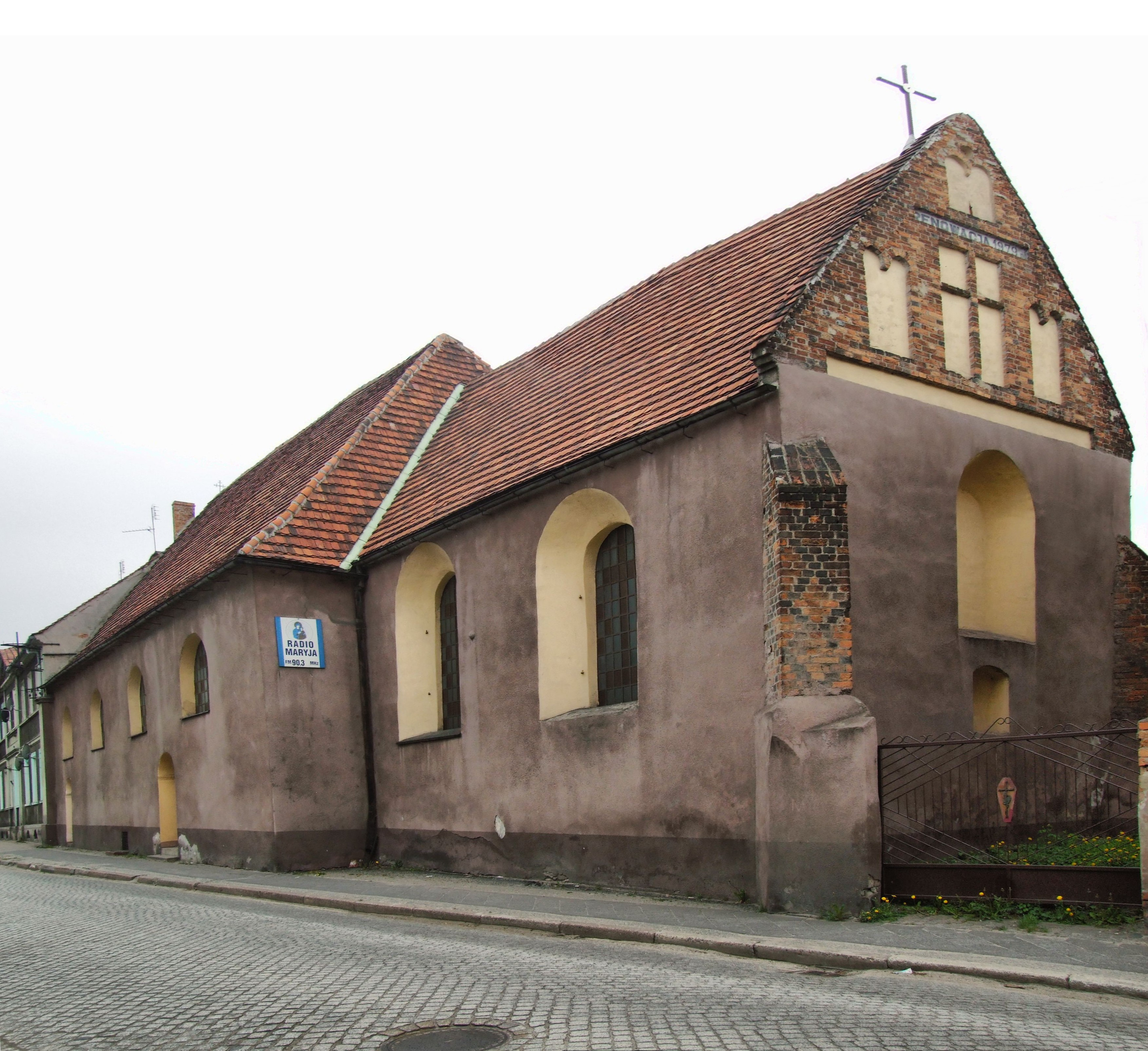 a mediaeval church in Kożuchów